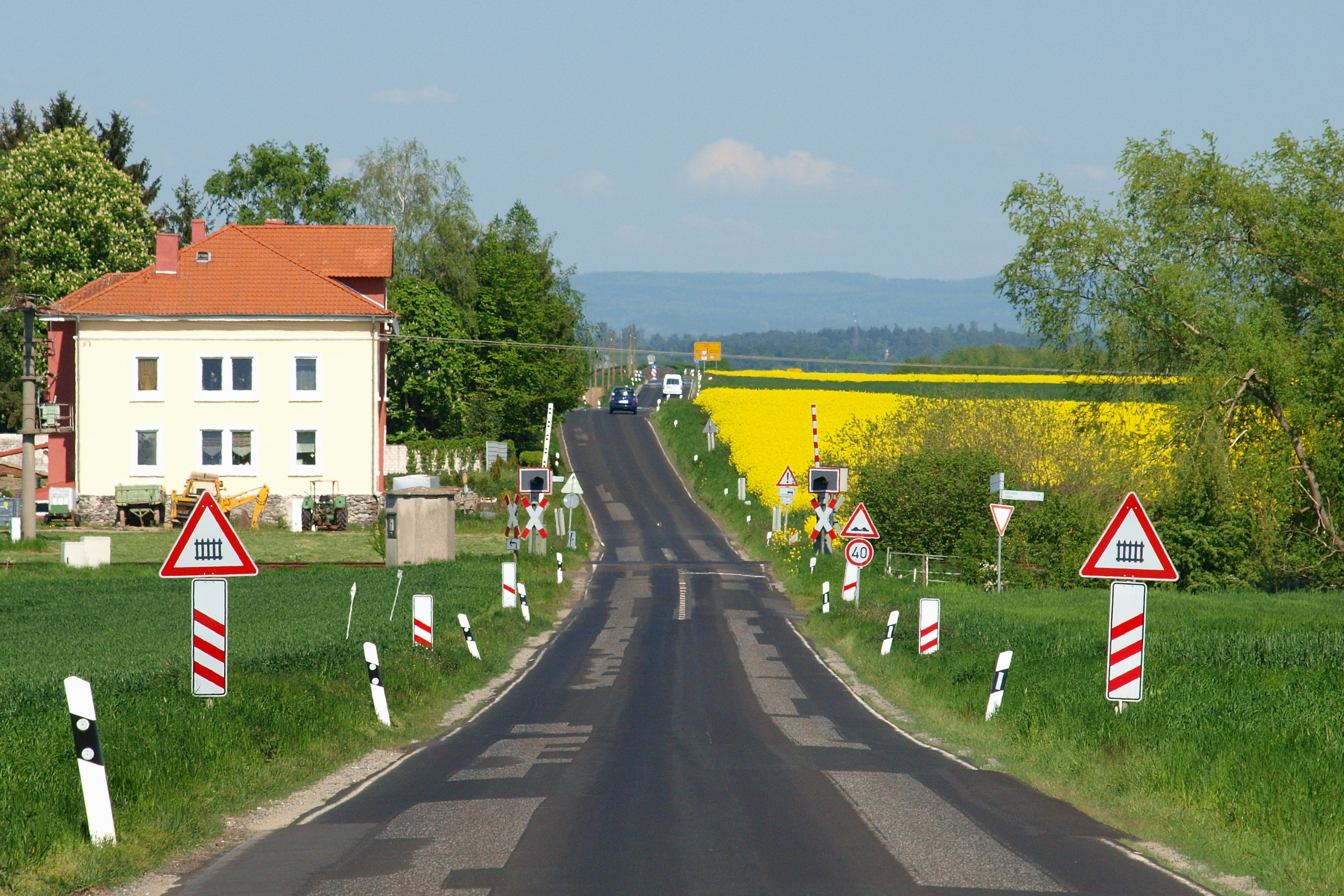 Signage of a Level crossing in Germany